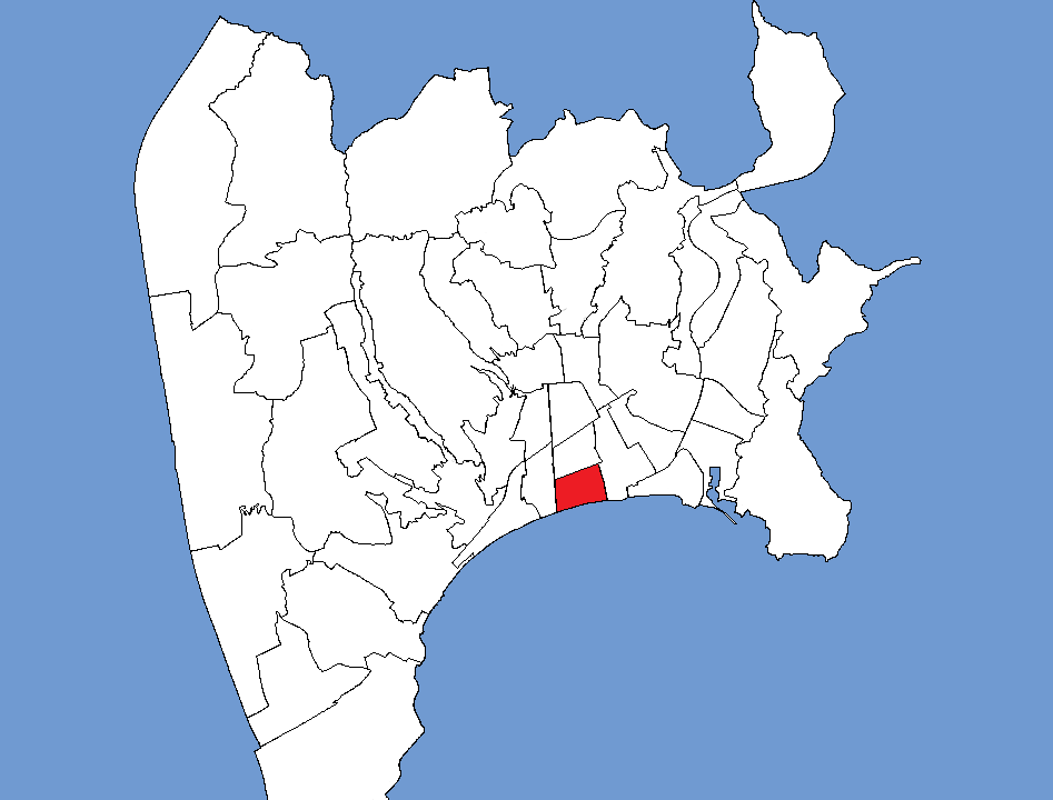 Location of the neighbourhood Rue de France in Nice